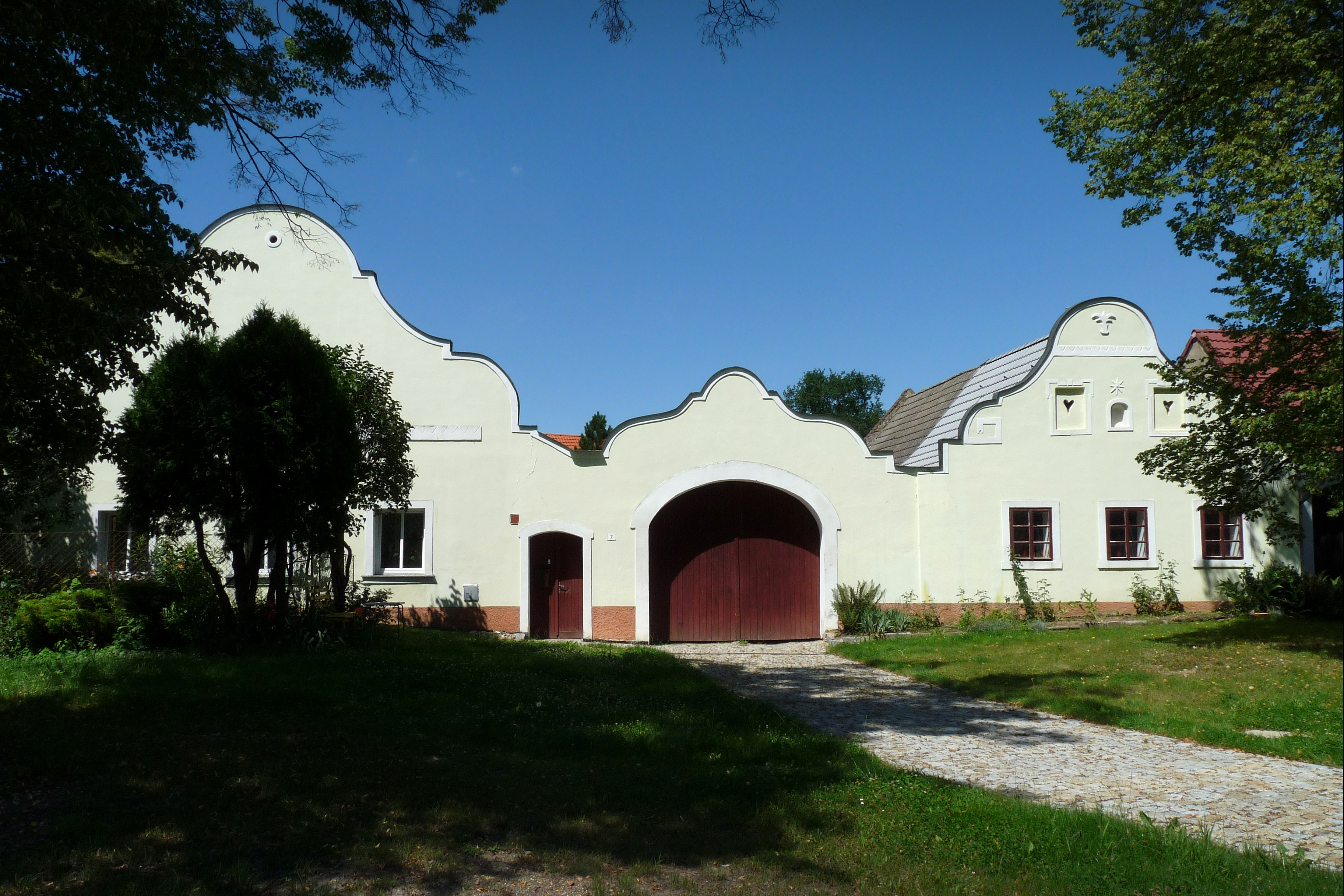 House No 7 in the village of Opatovice, part of Hrdějovice, České Budějovice District, Czech Republic.